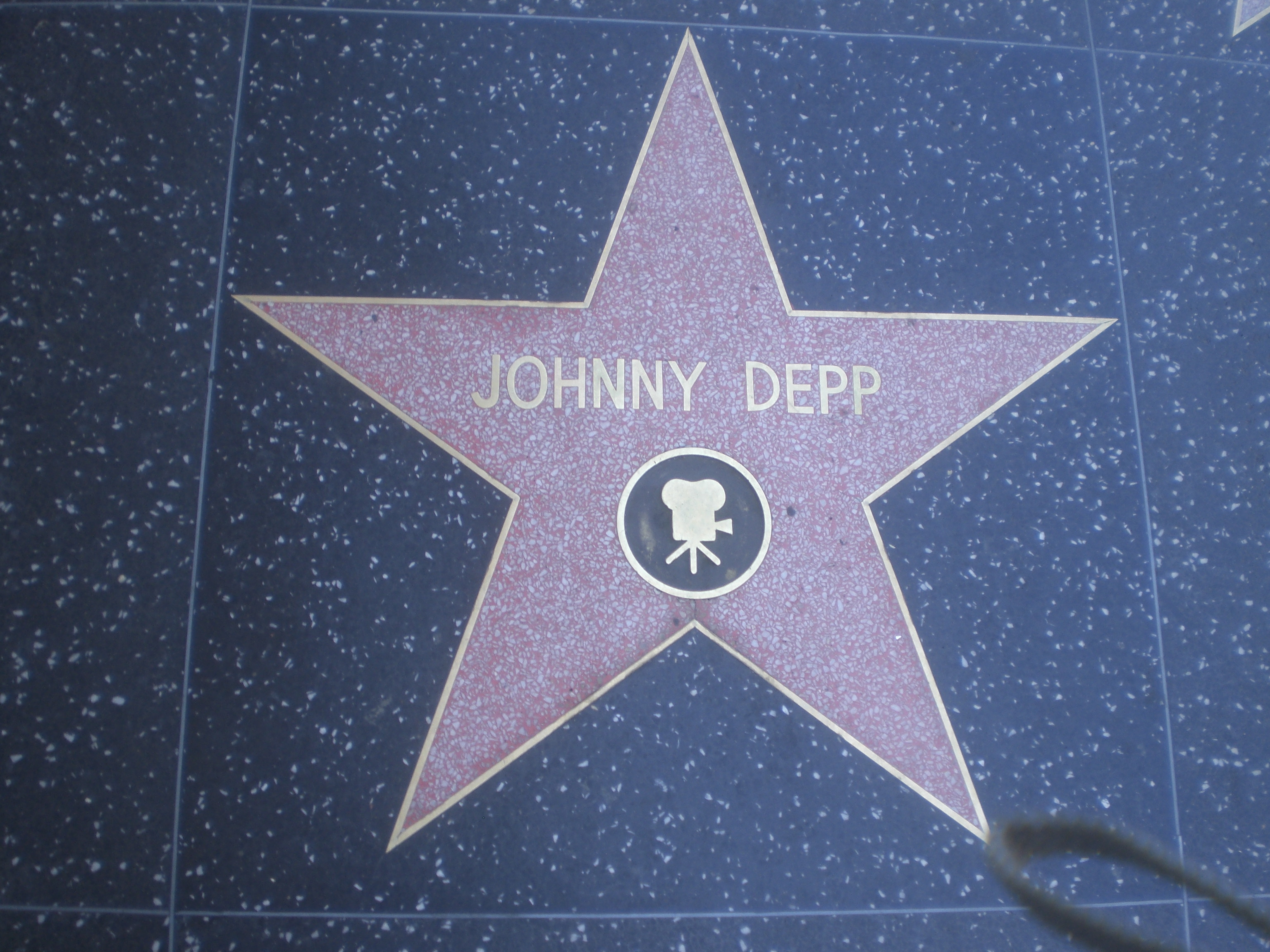 Johnny Depp's star on the Hollywood Walk of Fame